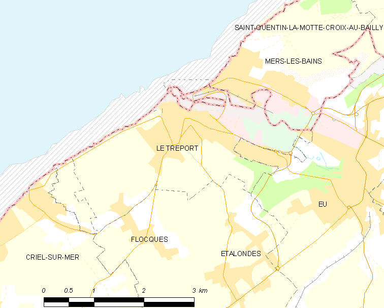 Map of French municipality Le Tréport